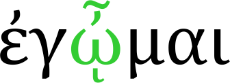 Coronis circumflex i subscriptum